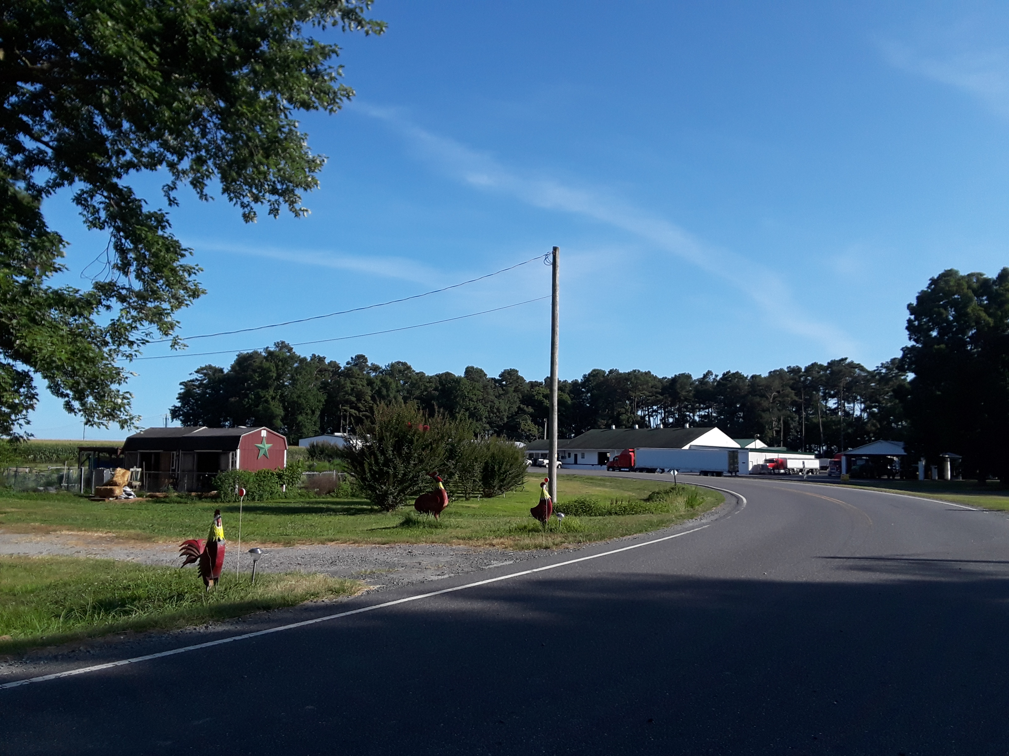 Taken on a visit to the Eastern Shore of Virginia, July 2018